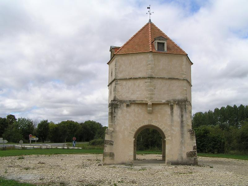 Dovecote tower of the Royal Post, in Sauzé-Vaussais, Deux-Sèvres, France.